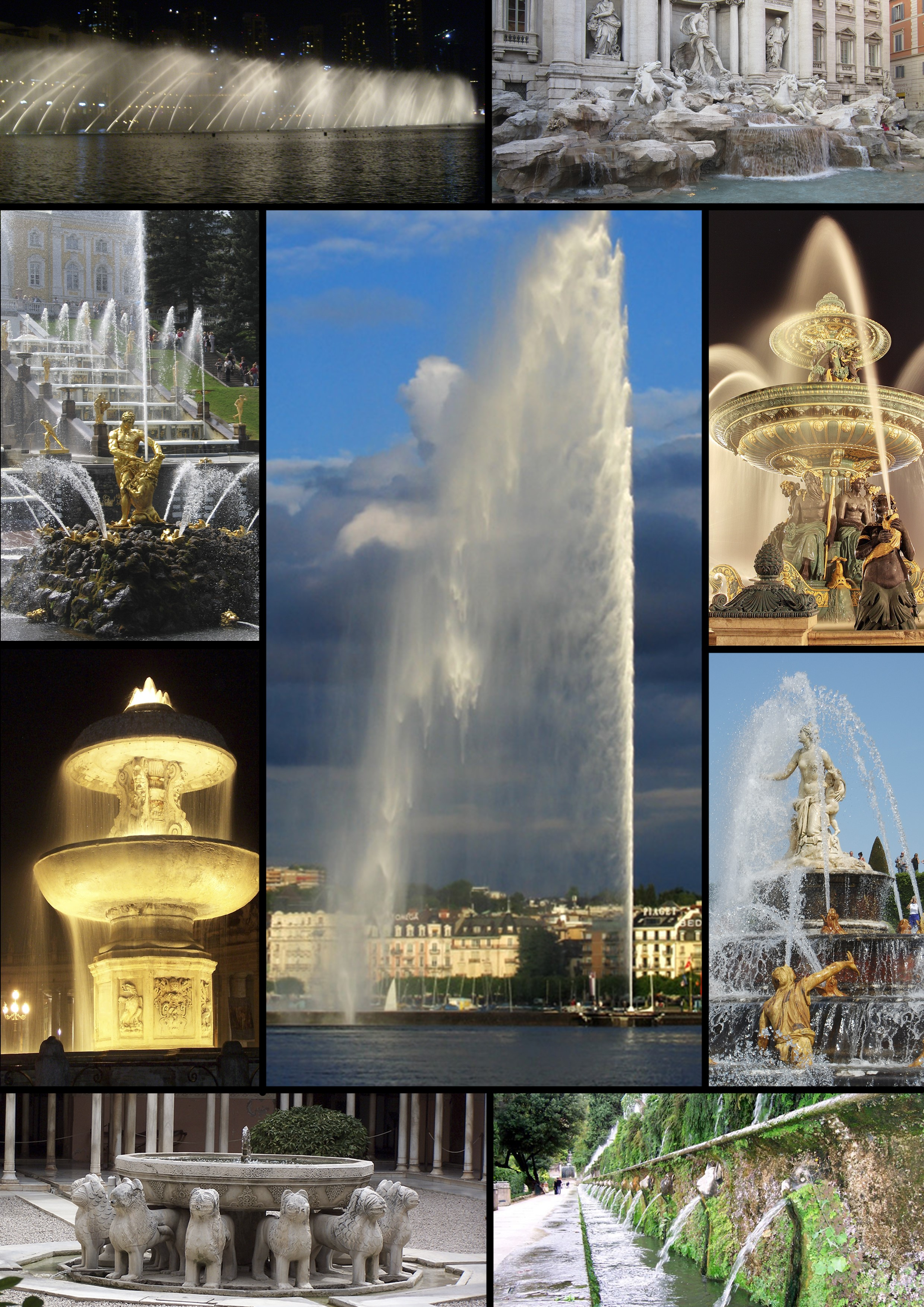 Jet d'eau de Genève (Switzerland) Fontaine de Trevi 1 (France) Fuente de los Leones (Spain) Fountain in the Parc de Versailles Fontana del Carlo Maderno 1613 (Italy) Tivoli - Cento fontane nei Giardini di Villa d'Este (Italy) Samson and the Lion fountain (Russia) Fountain of River Commerce and Navigation on the Place de la Concorde (France) Dubai Fountain (Dubai) This image was provided to Wikimedia Commons as a contribution from an Art&Design School thanks of a collaboration between Llotja and Amical Wikimedia. This file was derived from:✦ Jet-d'eau-Genève.jpg: ✦ Fontaine de Trevi 1.JPG: ✦ Granada Alhambra Fuente de los leones.jpg: ✦ Fountain in the Parc de Versailles (2519388110).jpg: ✦ It.Fontana.del.Carlo.Maderno.1613.03.jpg